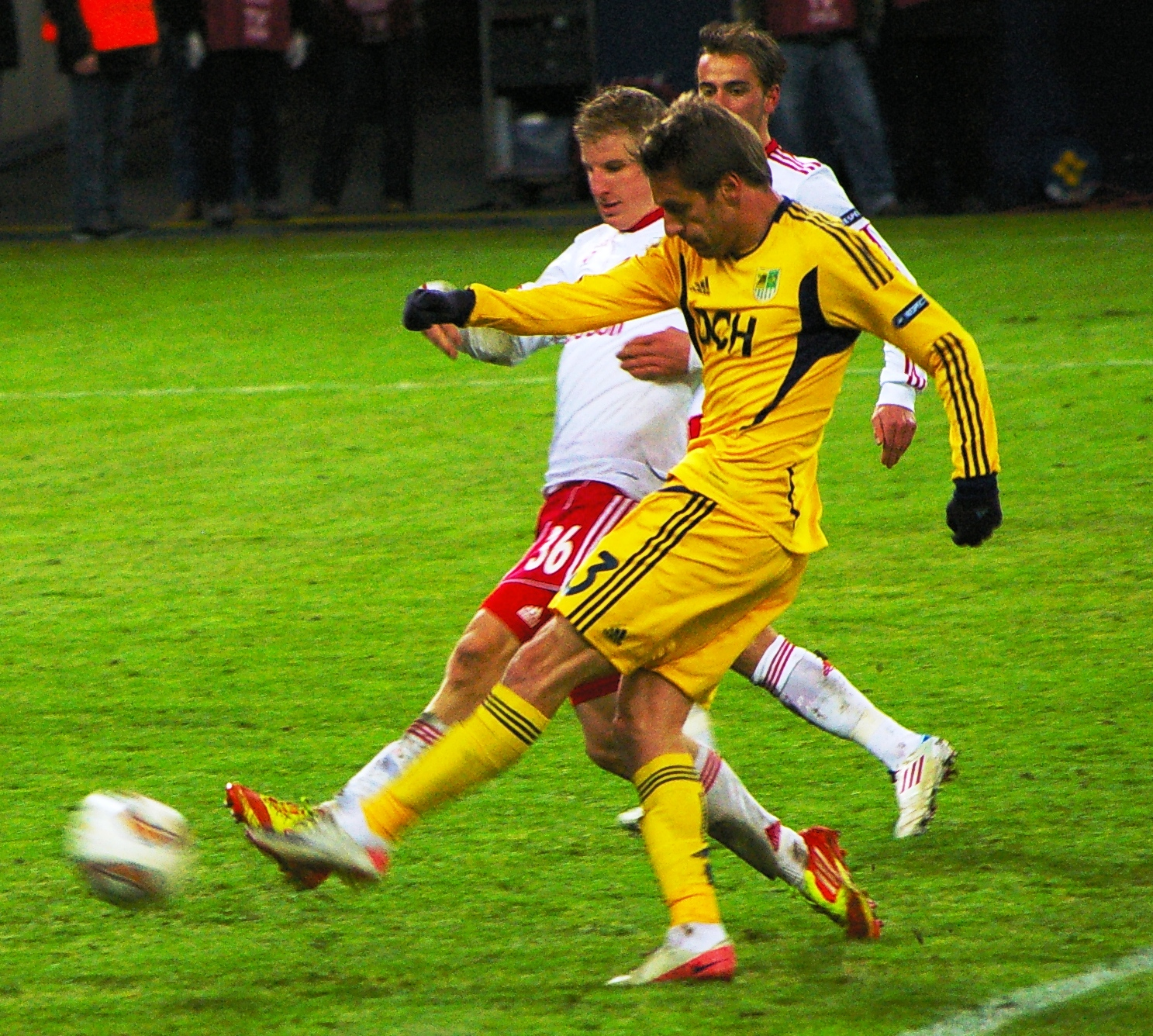 Europa League 2012 Round of 32